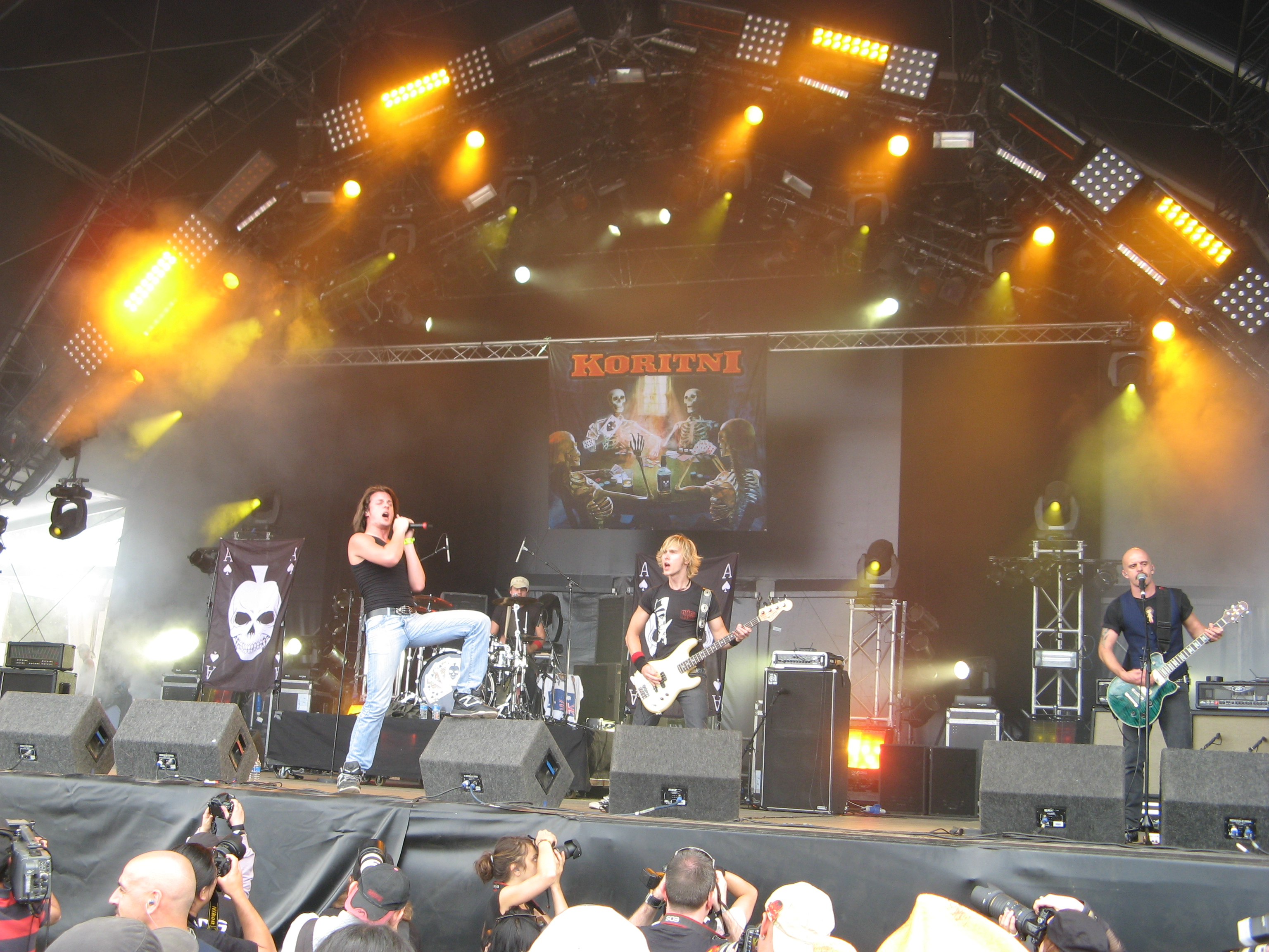 Koritni live at Hellfest 2009